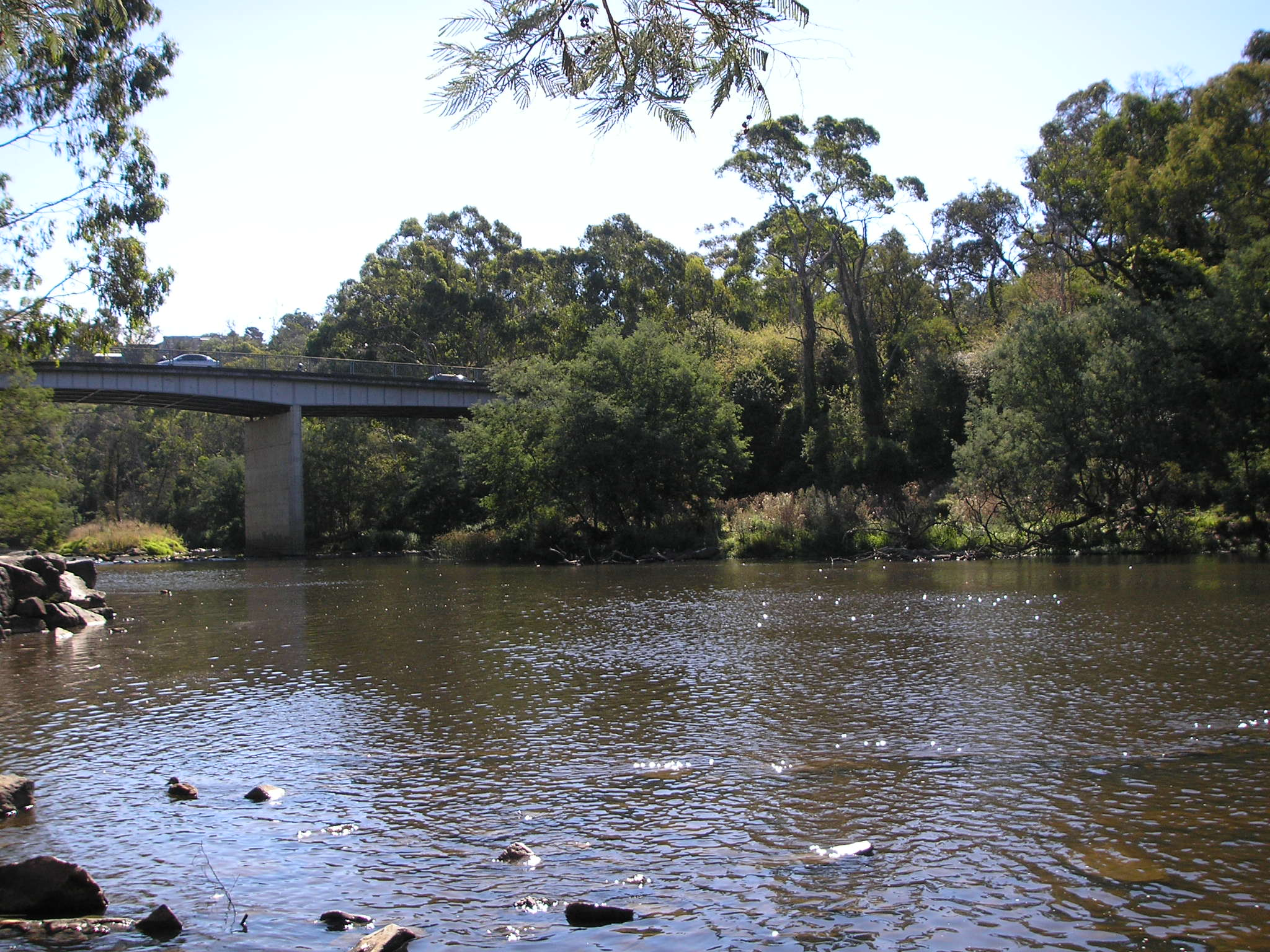 The Warrandyte Bridge, 2006. Image taken by me in 2006.